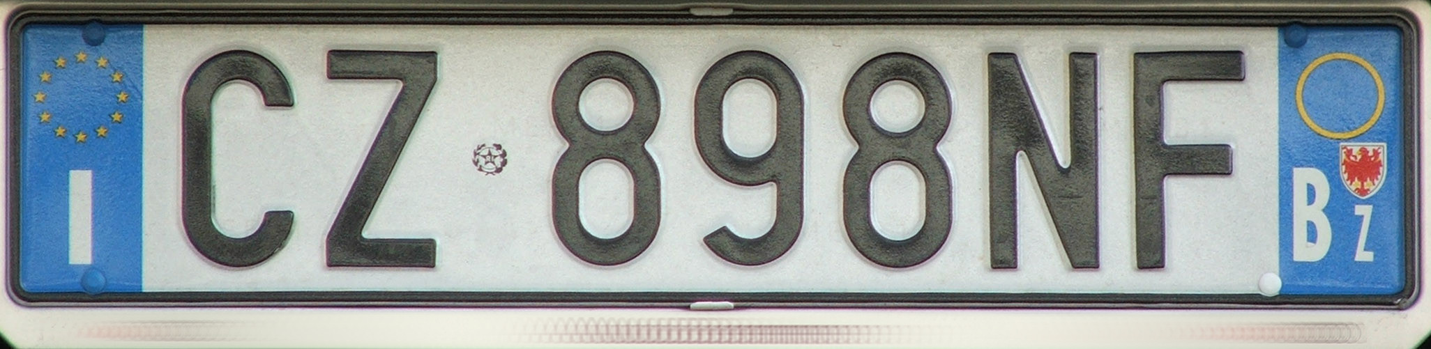 Vehicle licence plate from Italy, from the autonomous Bolzano/Bozen (BZ) province.